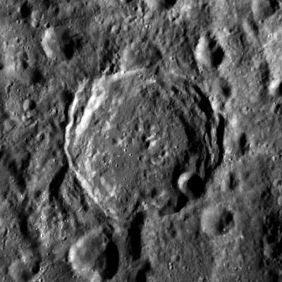 Morse lunar crater - LROC image